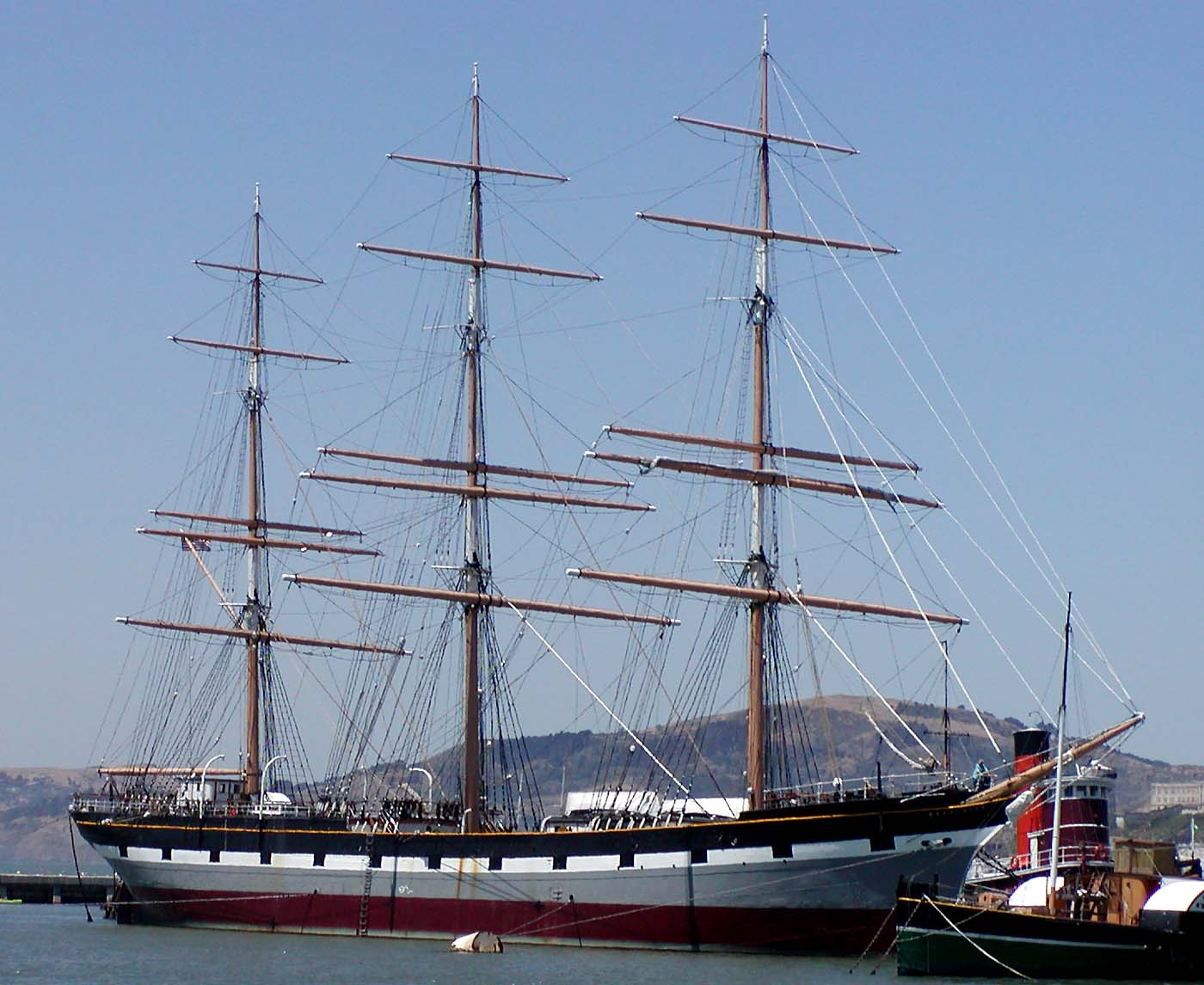 Photo of ship Balclutha in San Francisco